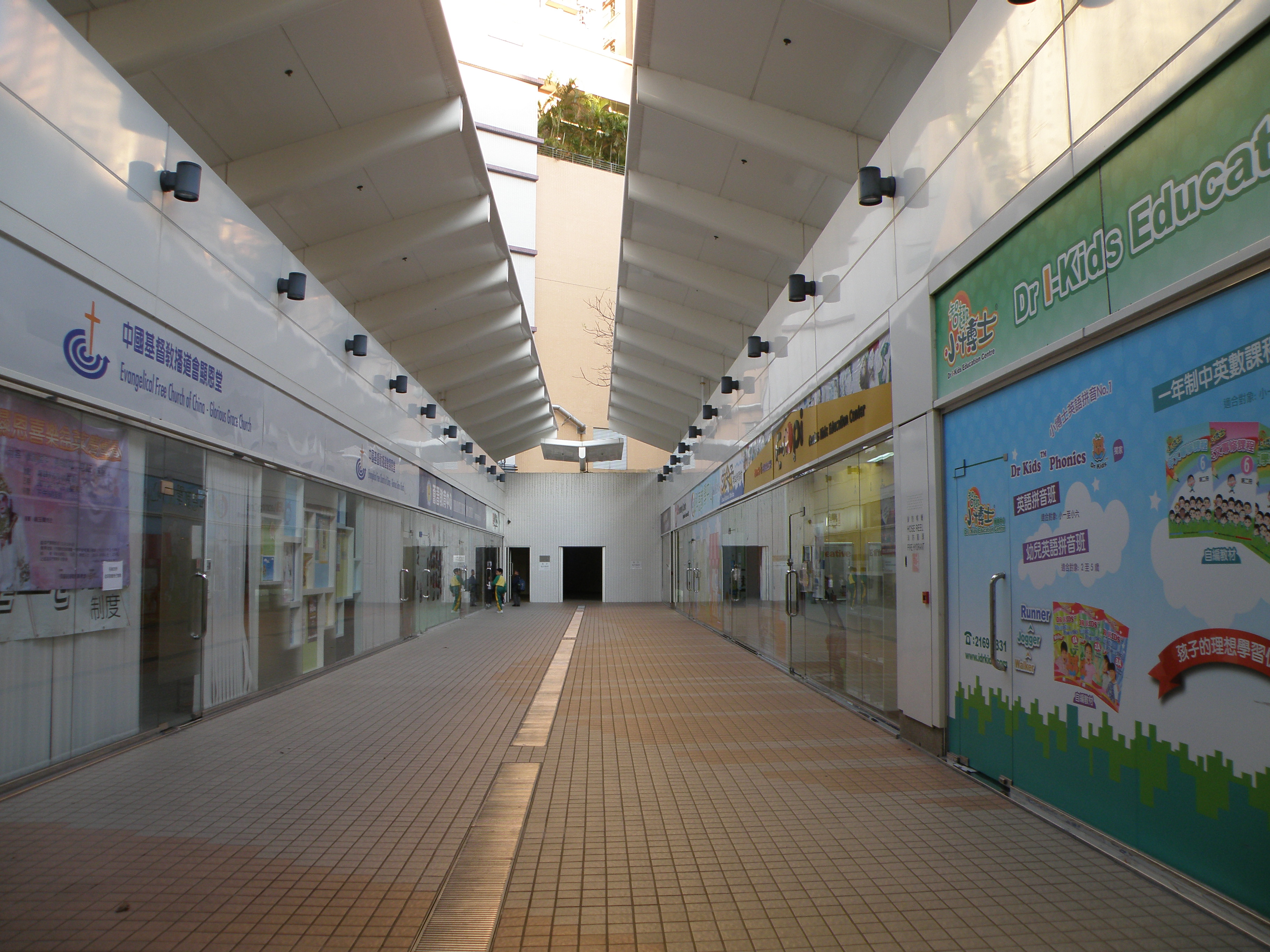 Kingsford Terrace shopping centre in Hammer Hill, Hong Kong.